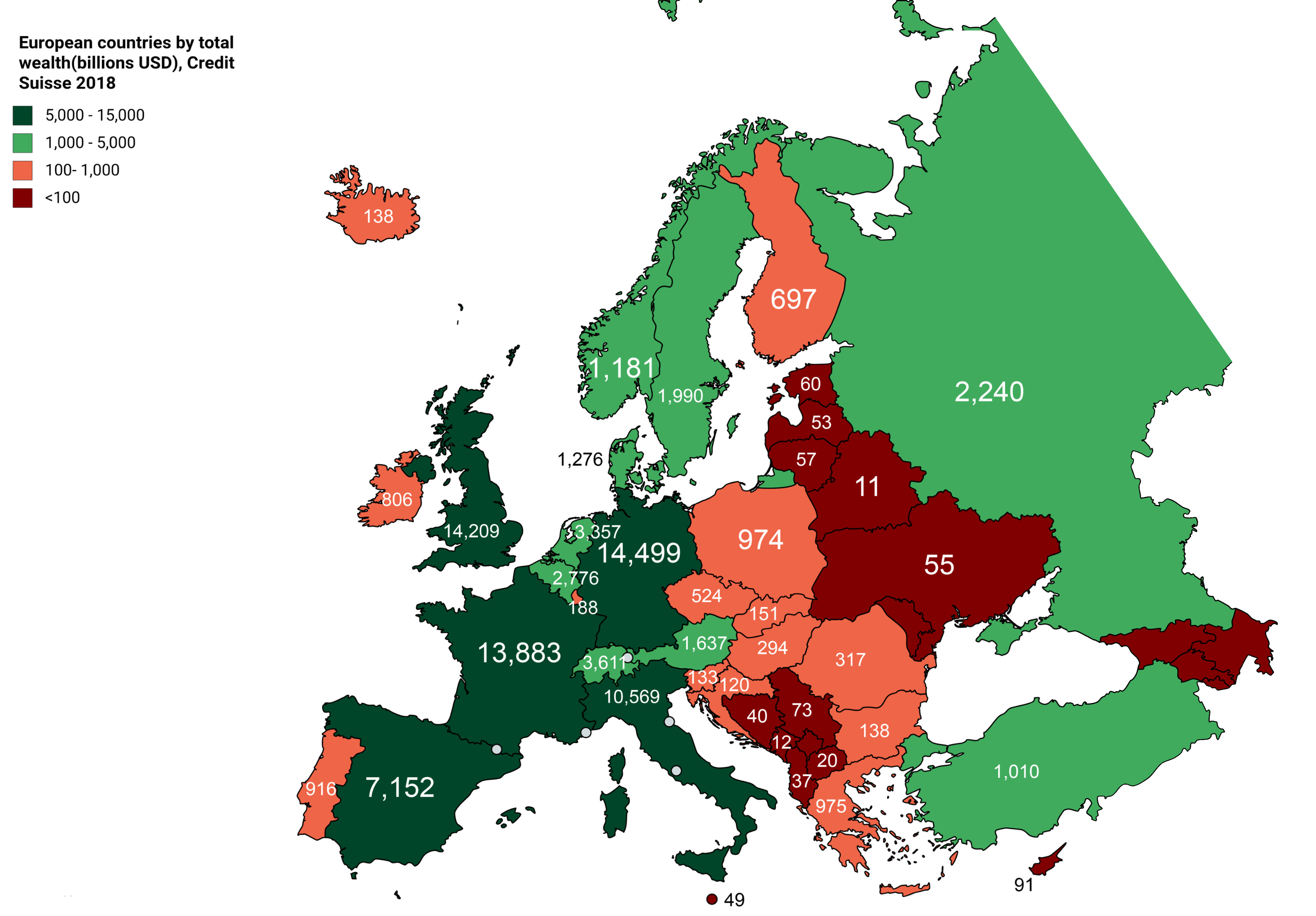 European countries by total wealth(billions USD), Credit Suisse 2018